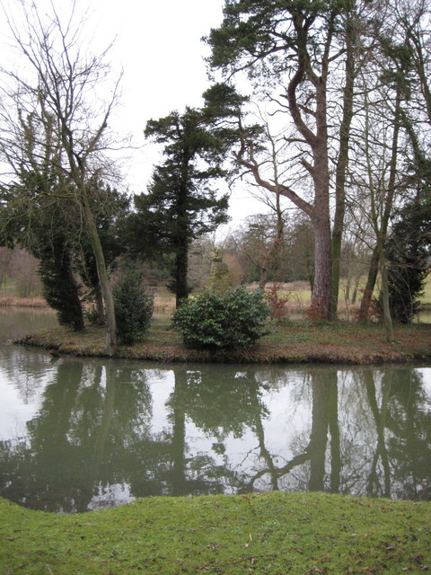 William Congreve's Monument